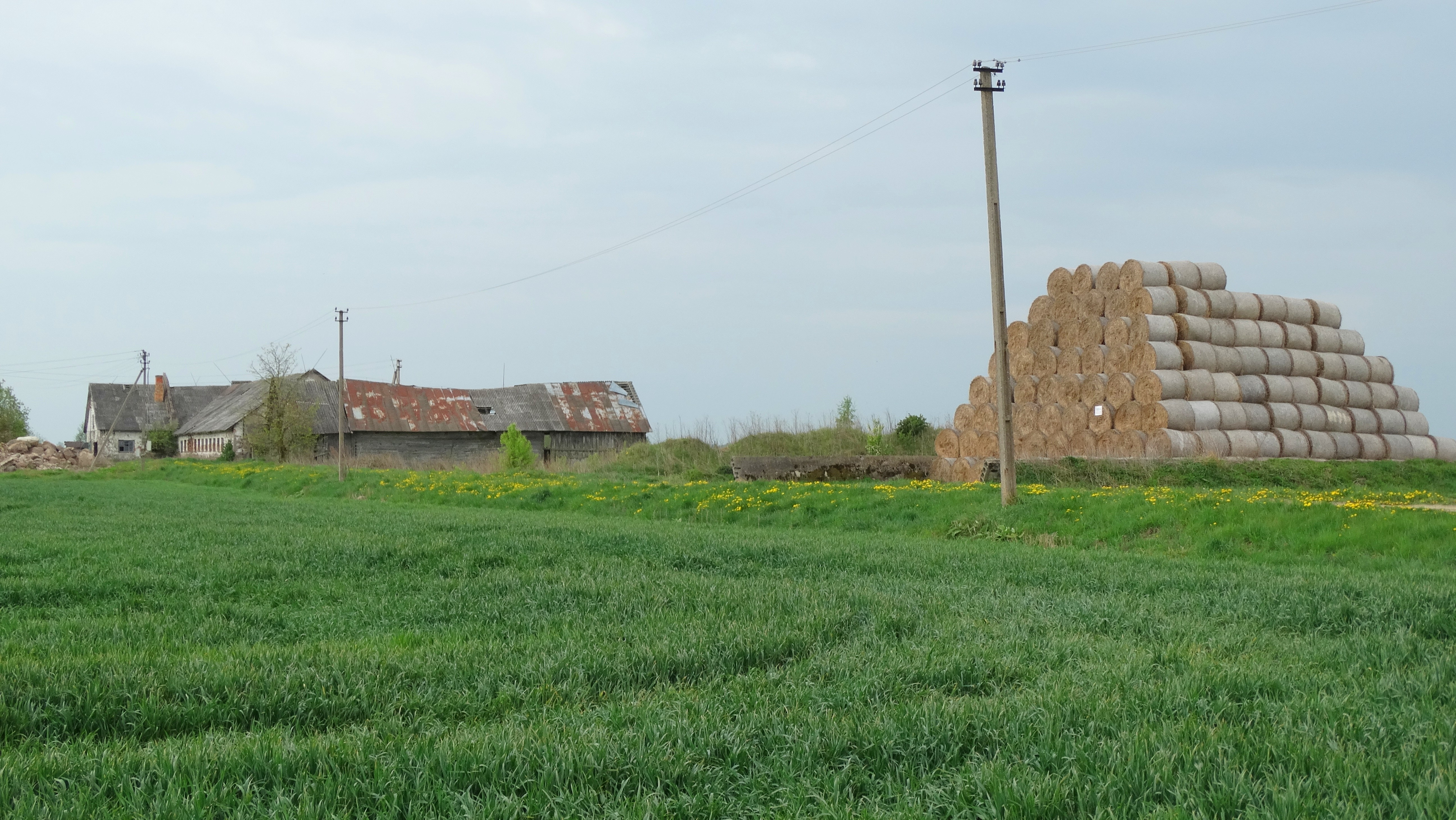 Getautai, Pakruojis district, Lithuania